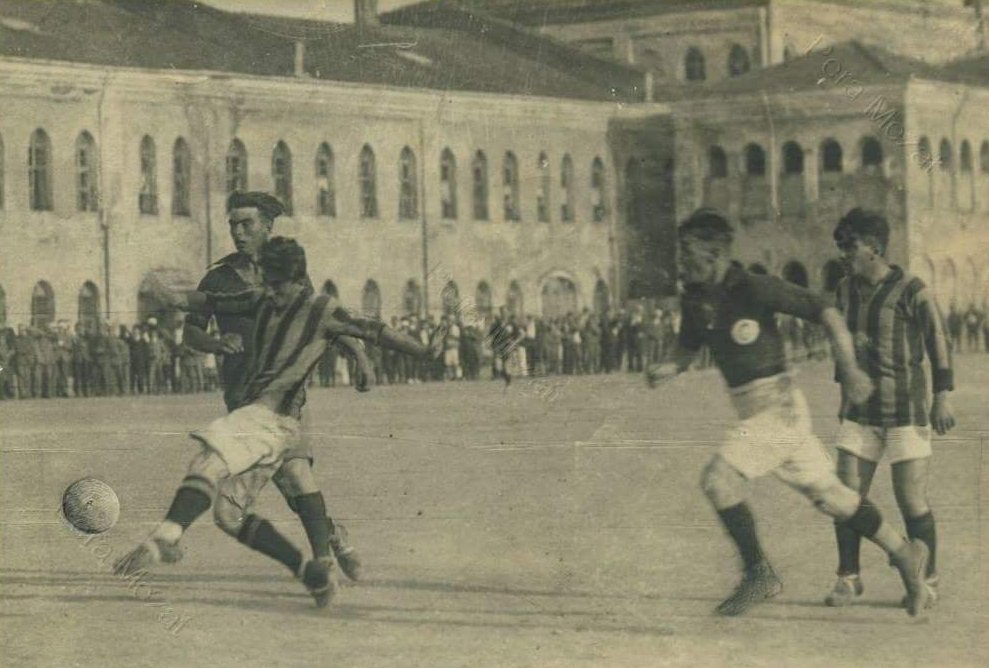 General Harington Trophy matches Fenerbahçe versus collected British team. before second goal.